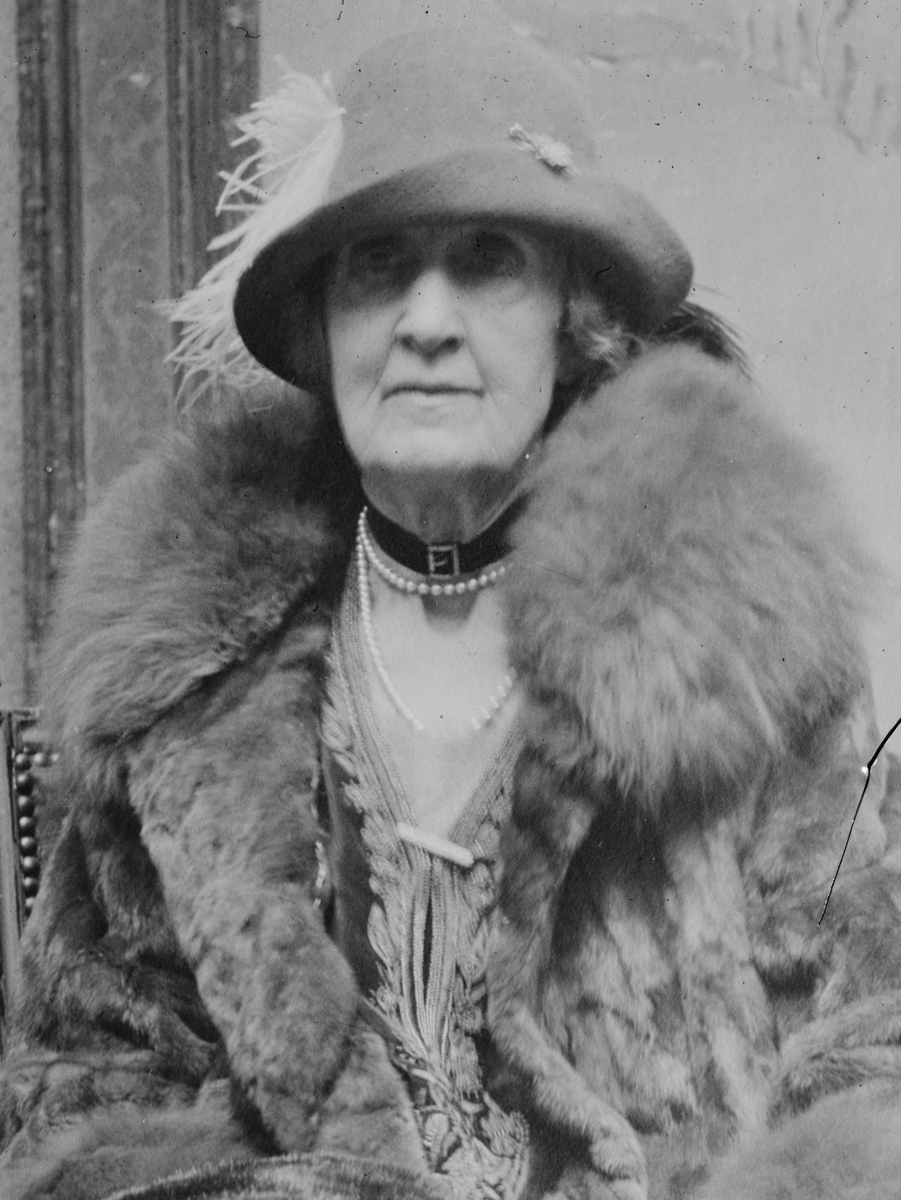 Title: Mrs. E.H. Harriman Abstract/medium: 1 negative : glass ; 5 x 7 in. or smaller.